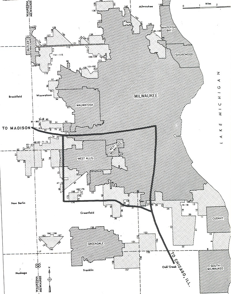 Interstates in today's terms I-94 I-894